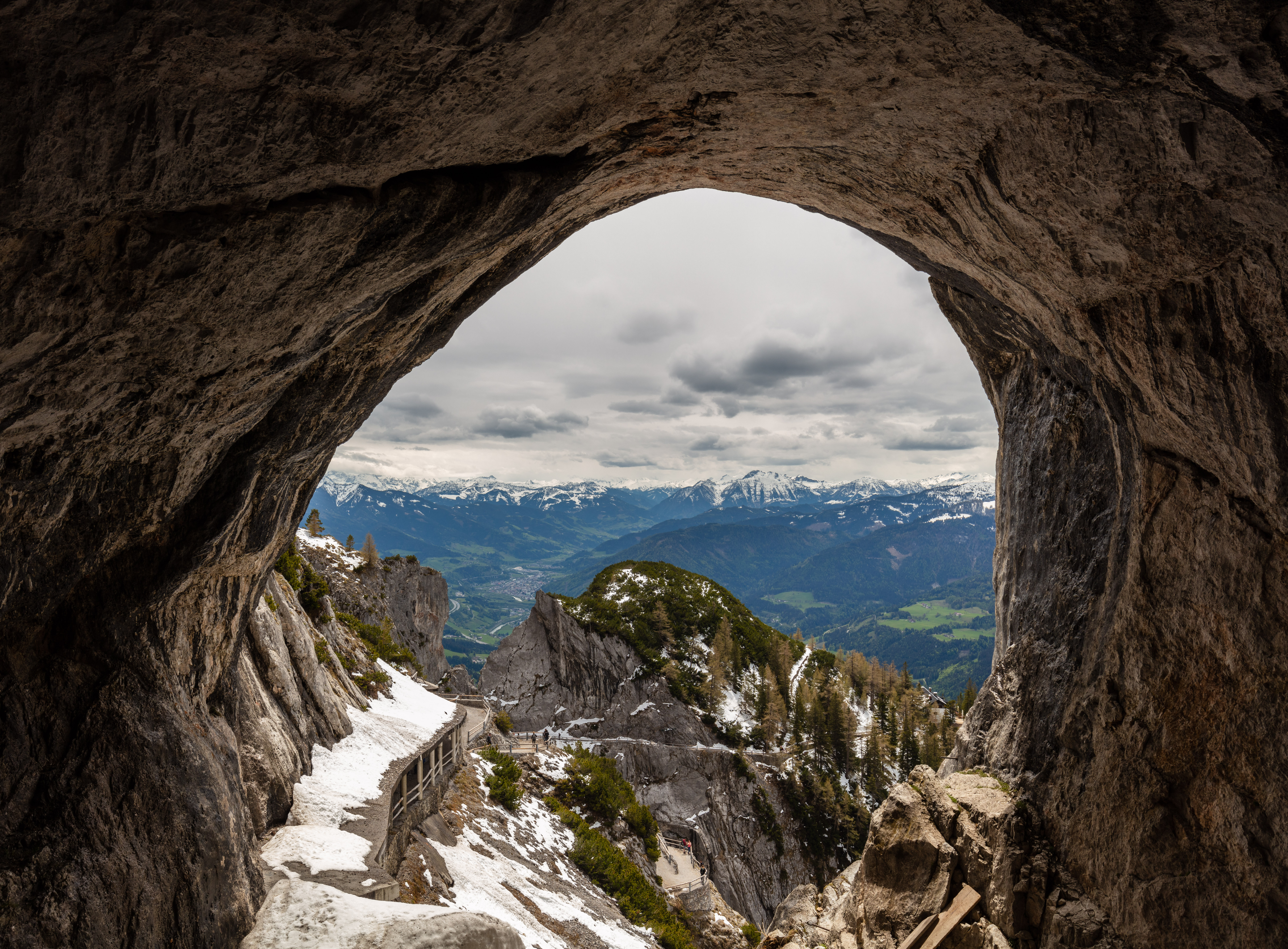 Eisriesenwelt, Tennen Mountains, Austria